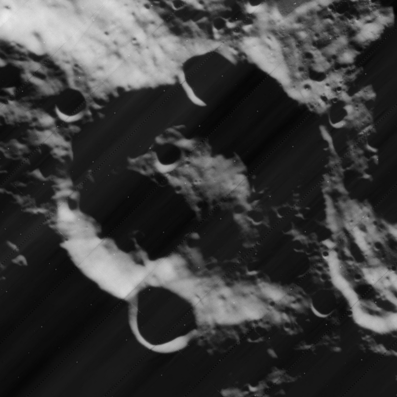 Nobile, near the south pole of the moon, with north at the top.